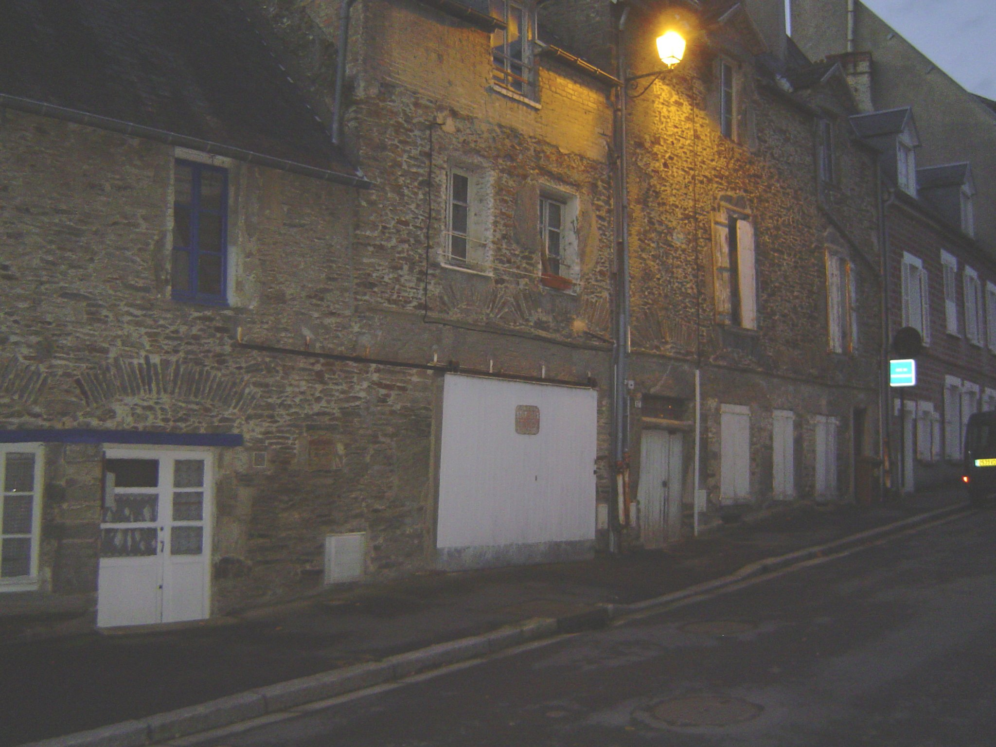 old street of saint-lo